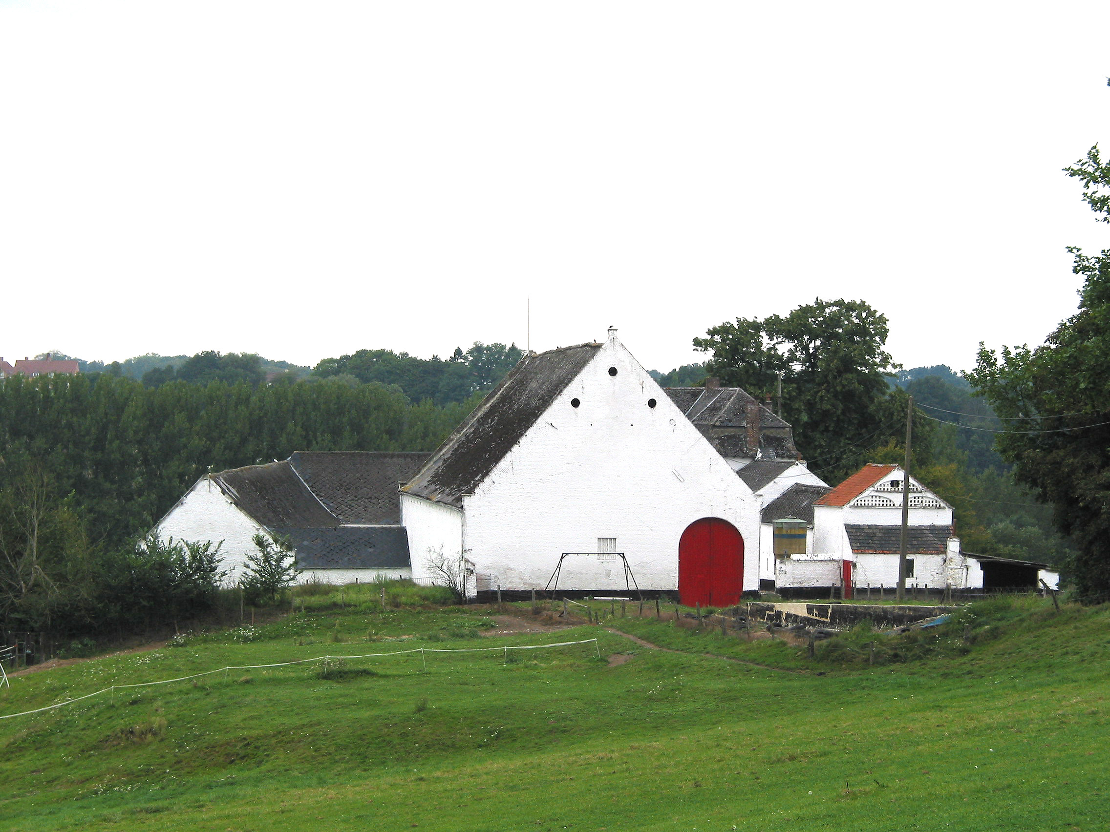 Lasne (Belgium), old farm of the village.